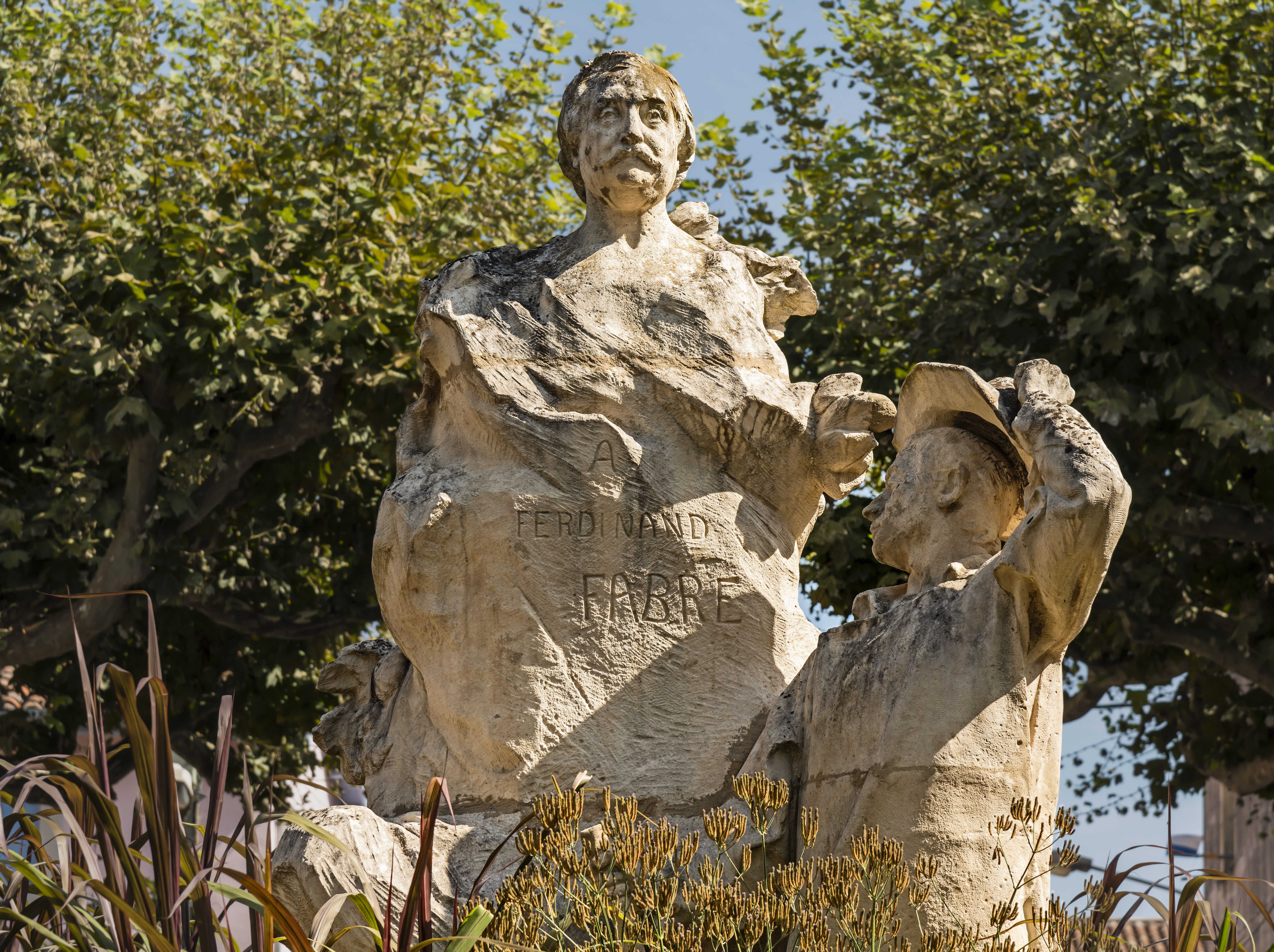 Bédarieux Hérault France - The monument to Ferdinand Fabre. Bronze bust by Jacques Louis Robert Villeneuve 1906. Size : 300x200x150 cm